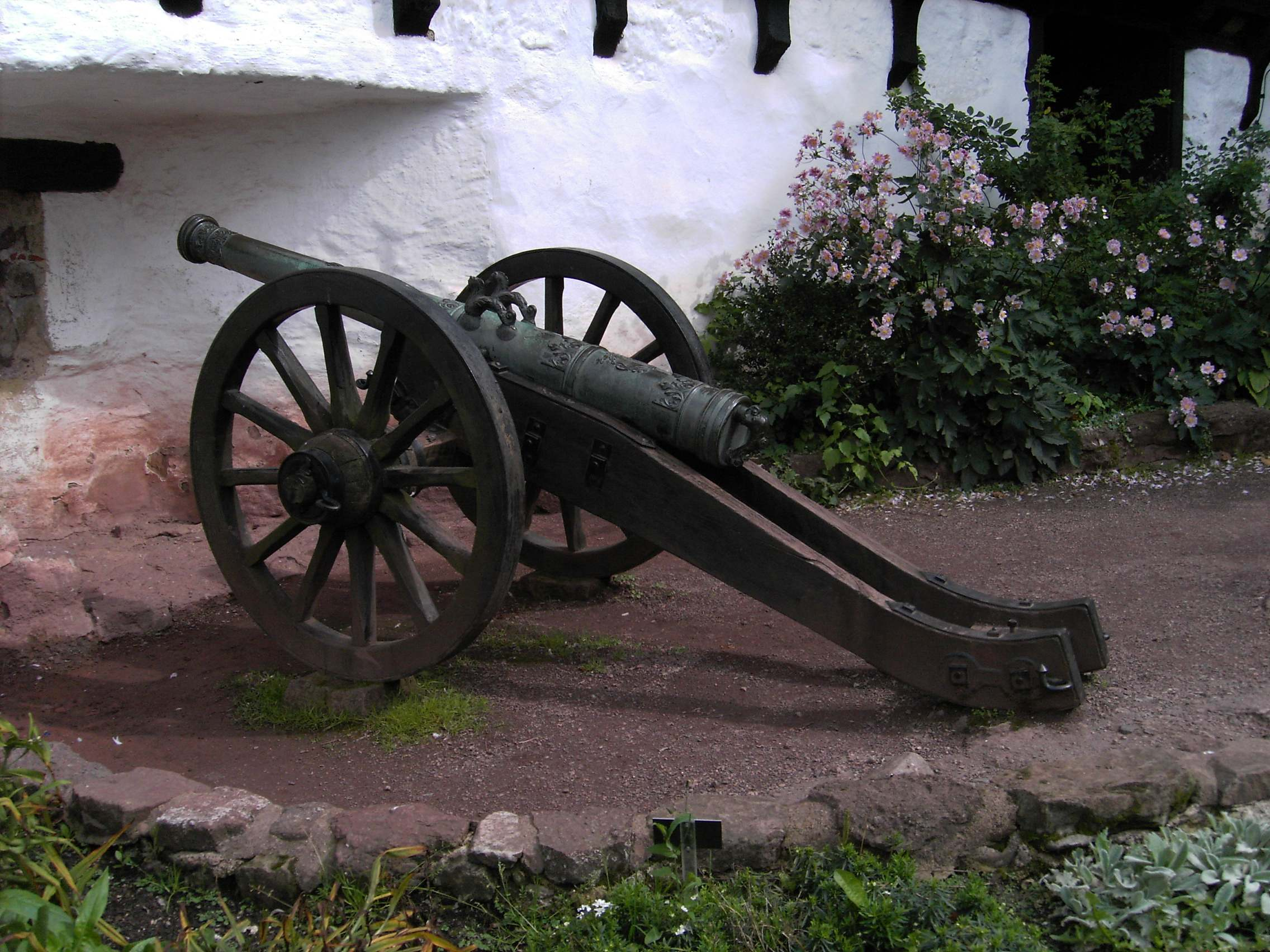 Wartburg, gun, ca. 17th century.